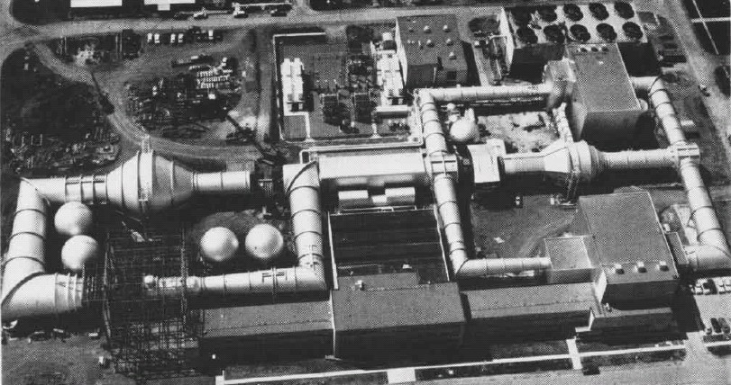 Aerial view of the wind tunnel at the NACA Ames Research Center (ARC) at Naval Air Station Moffett Field, California (USA), in the mid-1950s. Today, the wind tunnel is registered as a National Historic Landmark.